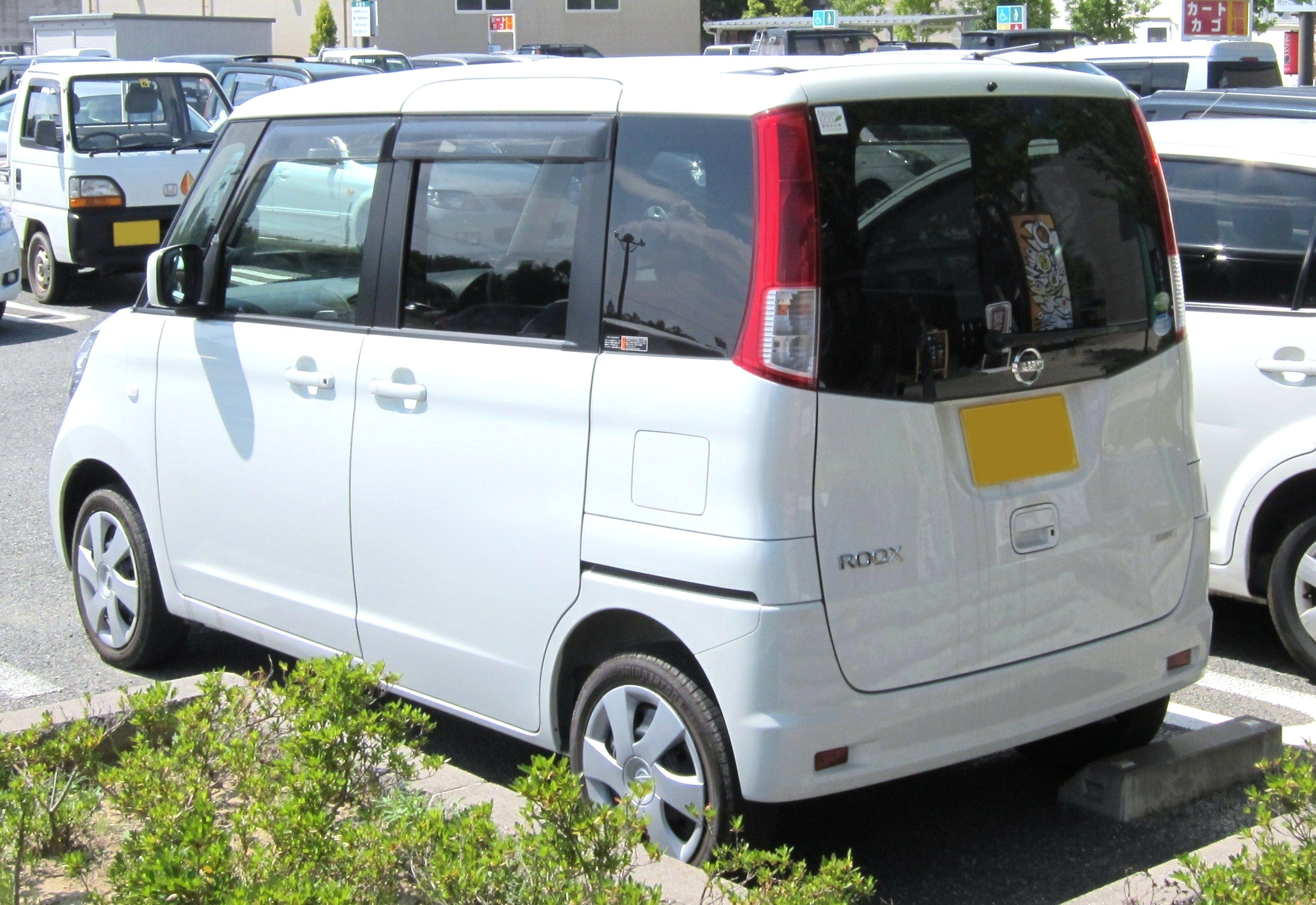 Nissan Roox